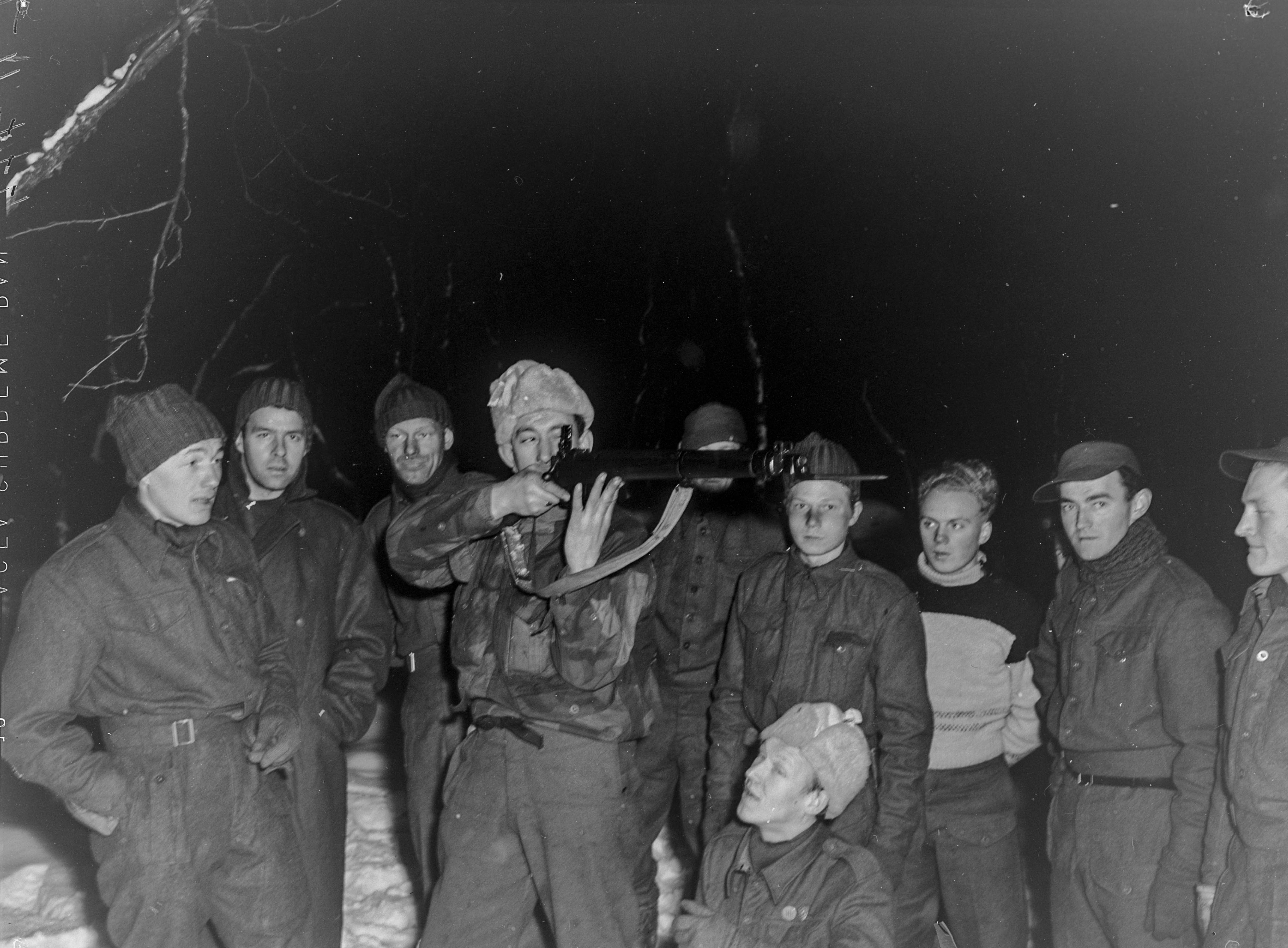 Photos from Flickr album "Evakueringen og frigjøringen av Finnmark" (The Evacuation and Liberation of Finnmark, 2015) by Riksarkivet (National Archives of Norway). Towards the end of World War II, with Operation Nordlicht, the Germans used the scorched earth tactic in Finnmark and northern Troms to halt the Red Army. As a consequence of this, few houses survived the war, and a large part of the population was forcefully evacuated further south (Tromsø was crowded), but many people avoided evacuation by hiding in caves and mountain huts and waited until the Germans were gone, then inspected their burned homes. There were 11,000 houses, 4,700 cow sheds, 106 schools, 27 churches, and 21 hospitals burned. There were 22,000 communications lines destroyed, roads were blown up, boats destroyed, animals killed, and 1,000 children separated from their parents. However, after taking the town of Kirkenes on 25 October 1944 (as the first town in Norway), the Red Army did not attempt further offensives in Norway. The town was handed over to Norway as the war ended. When war was over, more than 70,000 people were left homeless in Finnmark. The government imposed a temporary ban on residents returning to Finnmark because of the danger of landmines. The ban lasted until the summer of 1945 when evacuees were told that they could finally return home.